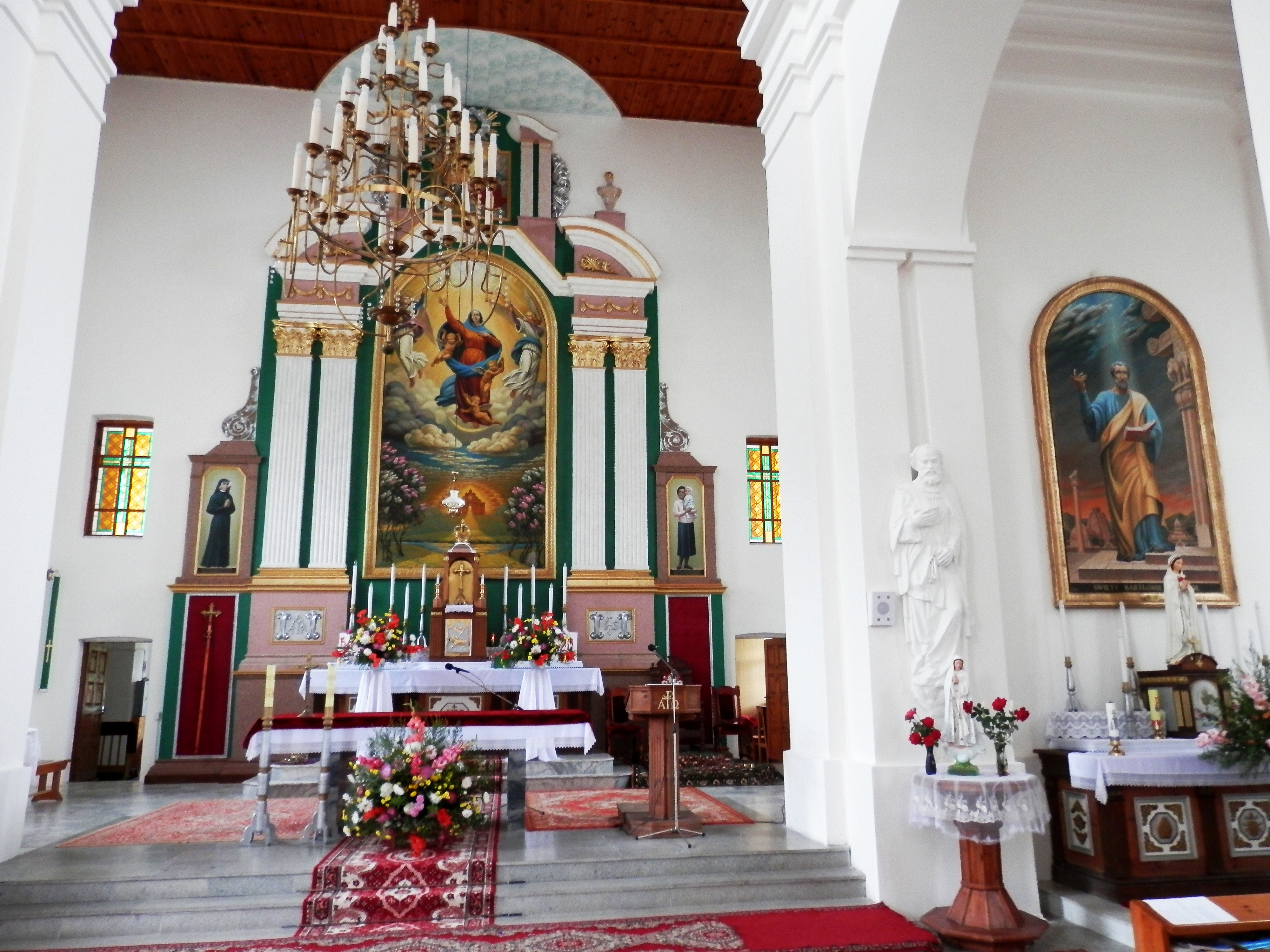 Church of Assumption of the Holy Virgin Mary. Naliboki, Belarus